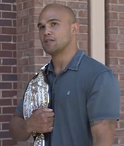 Robbie Lawler being interviewed at an Atlanta Falcons practice